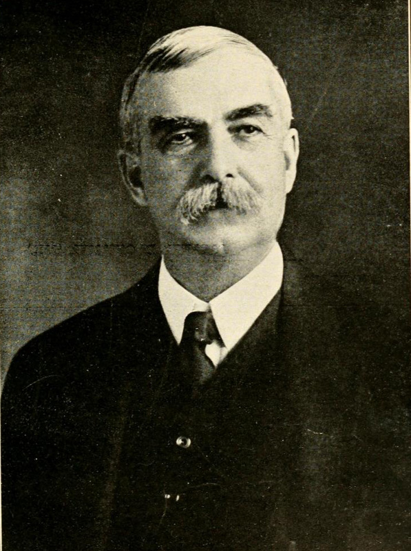 Holmes Samuel Chipman circa 1900